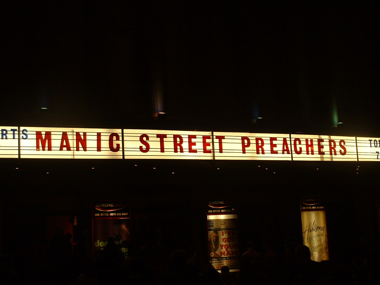 Manic Street Preachers live in London